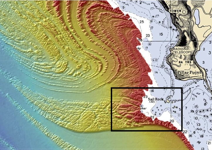 Bathymetry off Half Moon Bay, California. Rectangle indicates the location of the Mavericks surf break. The narrow ramp leading up from the west causes the big waves.